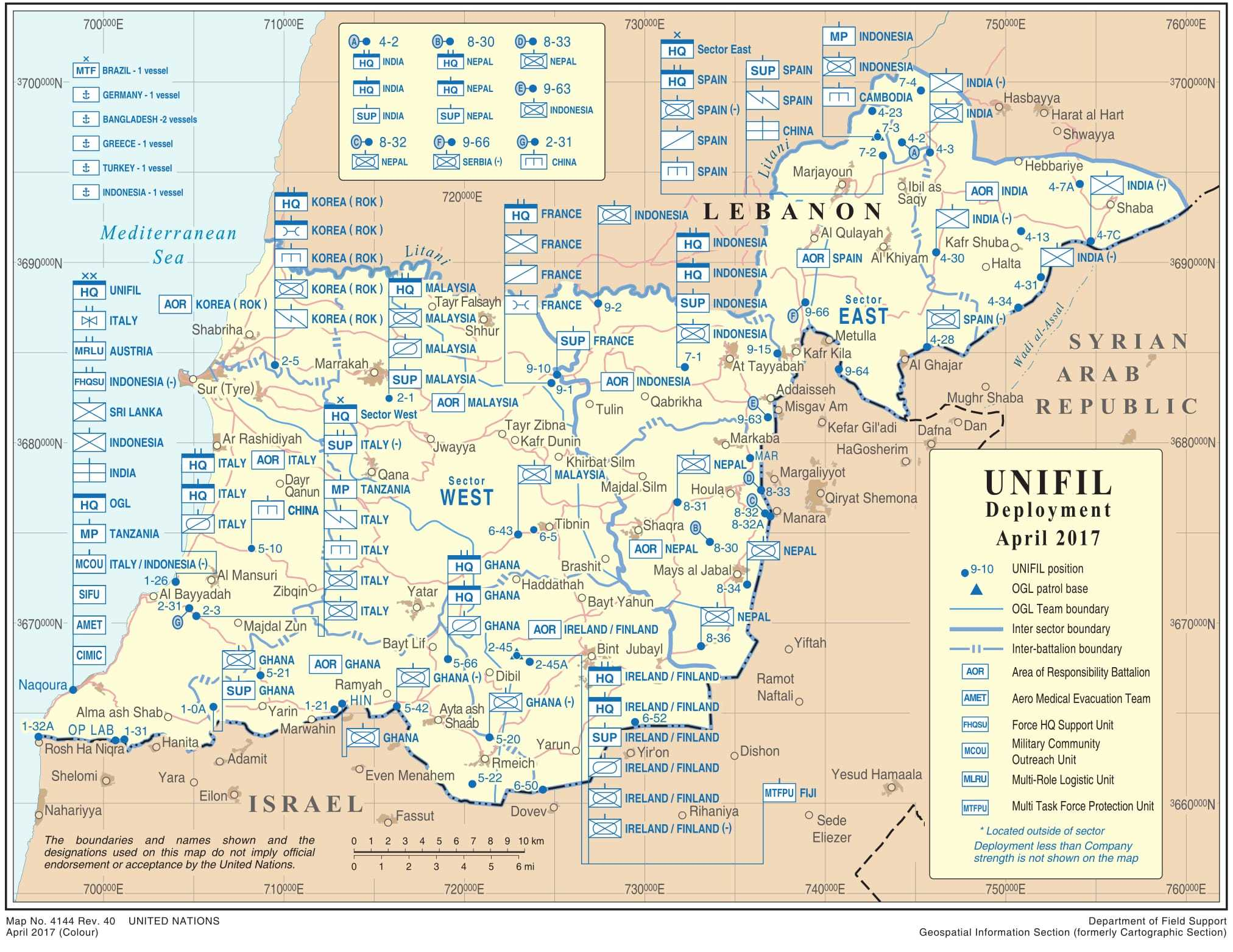 United Nations Interim Force in Lebanon (UNIFIL) Deployment, April 2017.